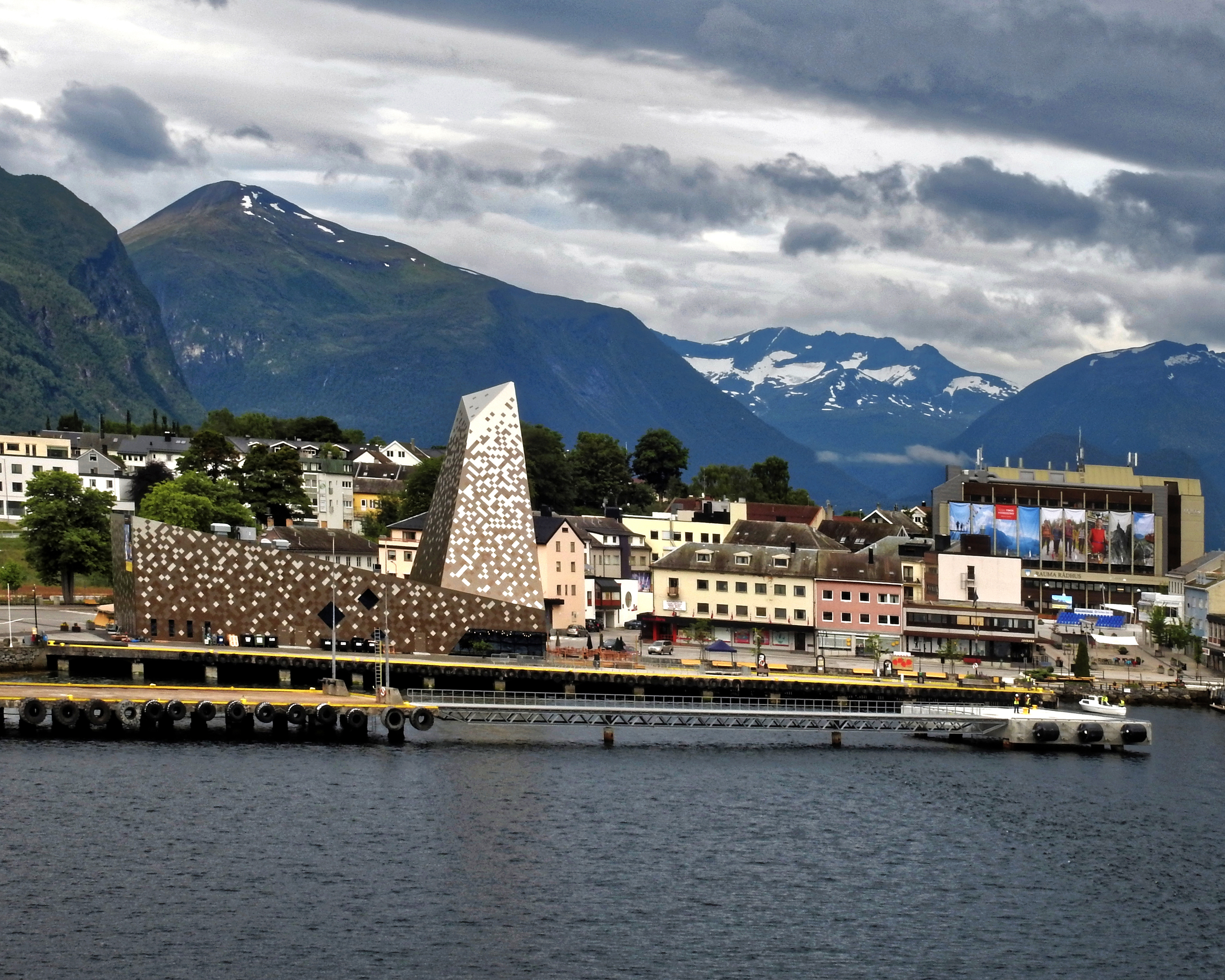 in the port of Andalsnes.